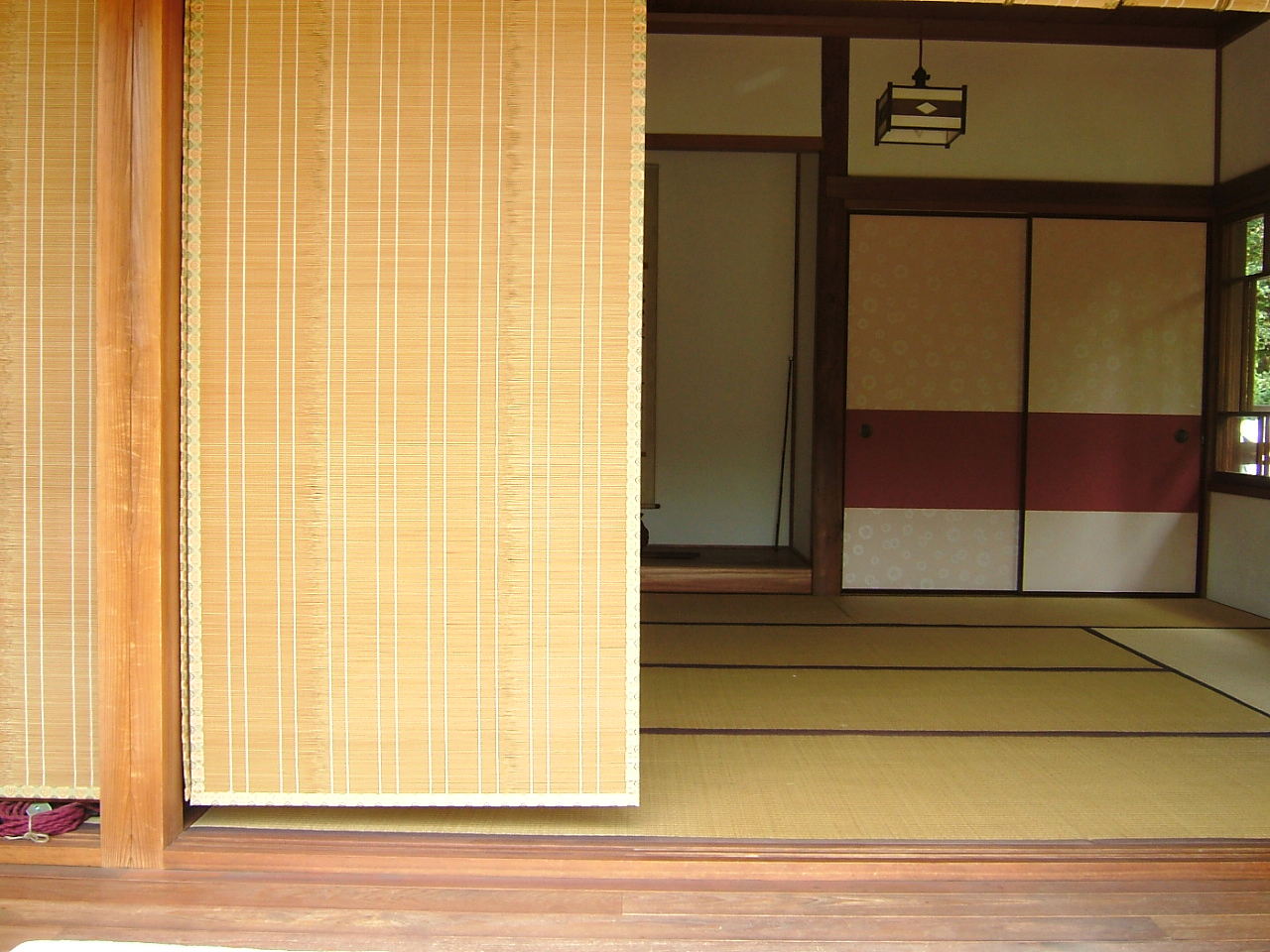 Satsuki and Mei’s House.The pavilion reproducing the character "Satsuki and May" house of Hayao Miyazaki's movie "My Neighbor Totoro".